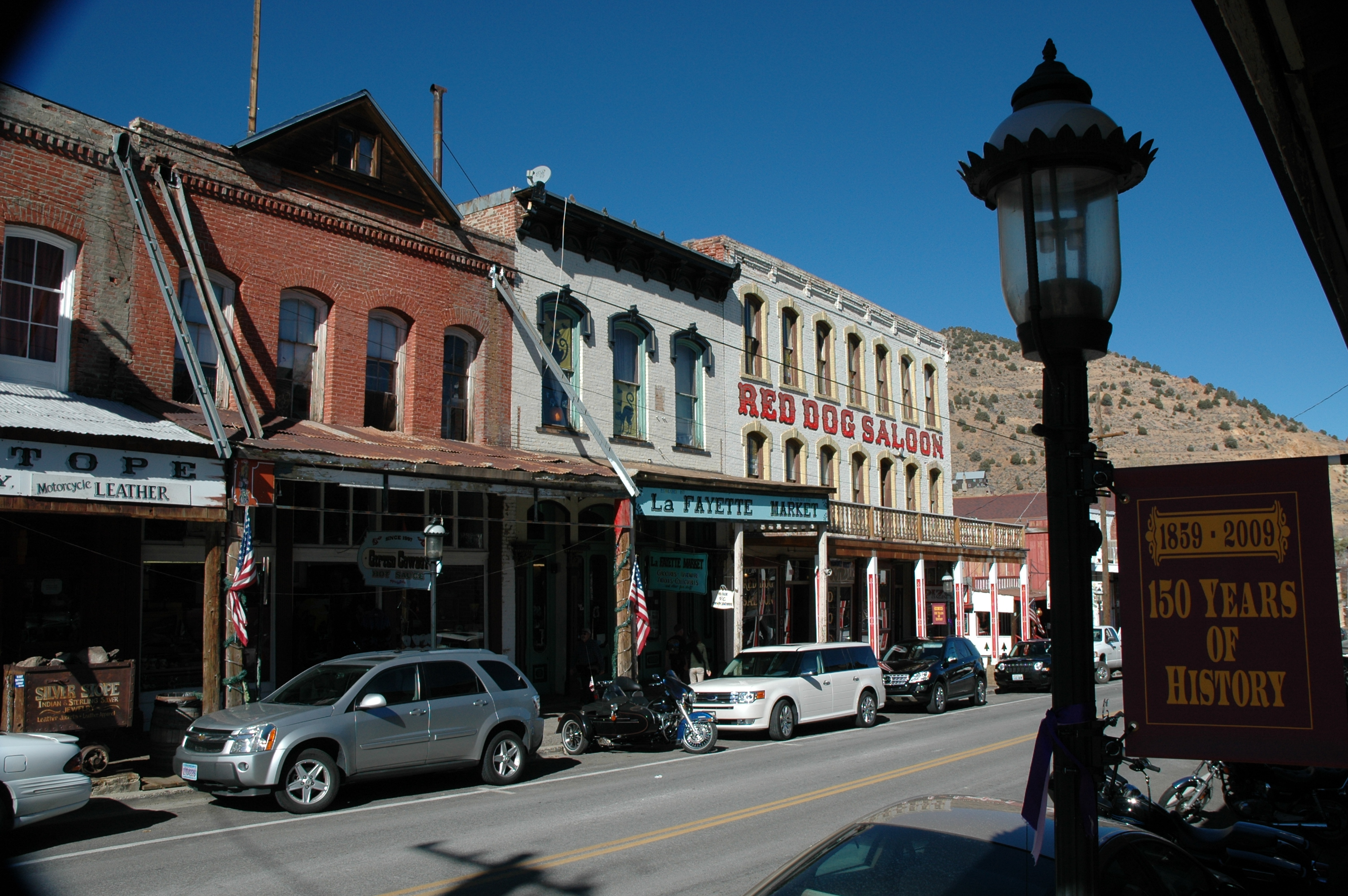 Virgina City, Nevada-modern day street view